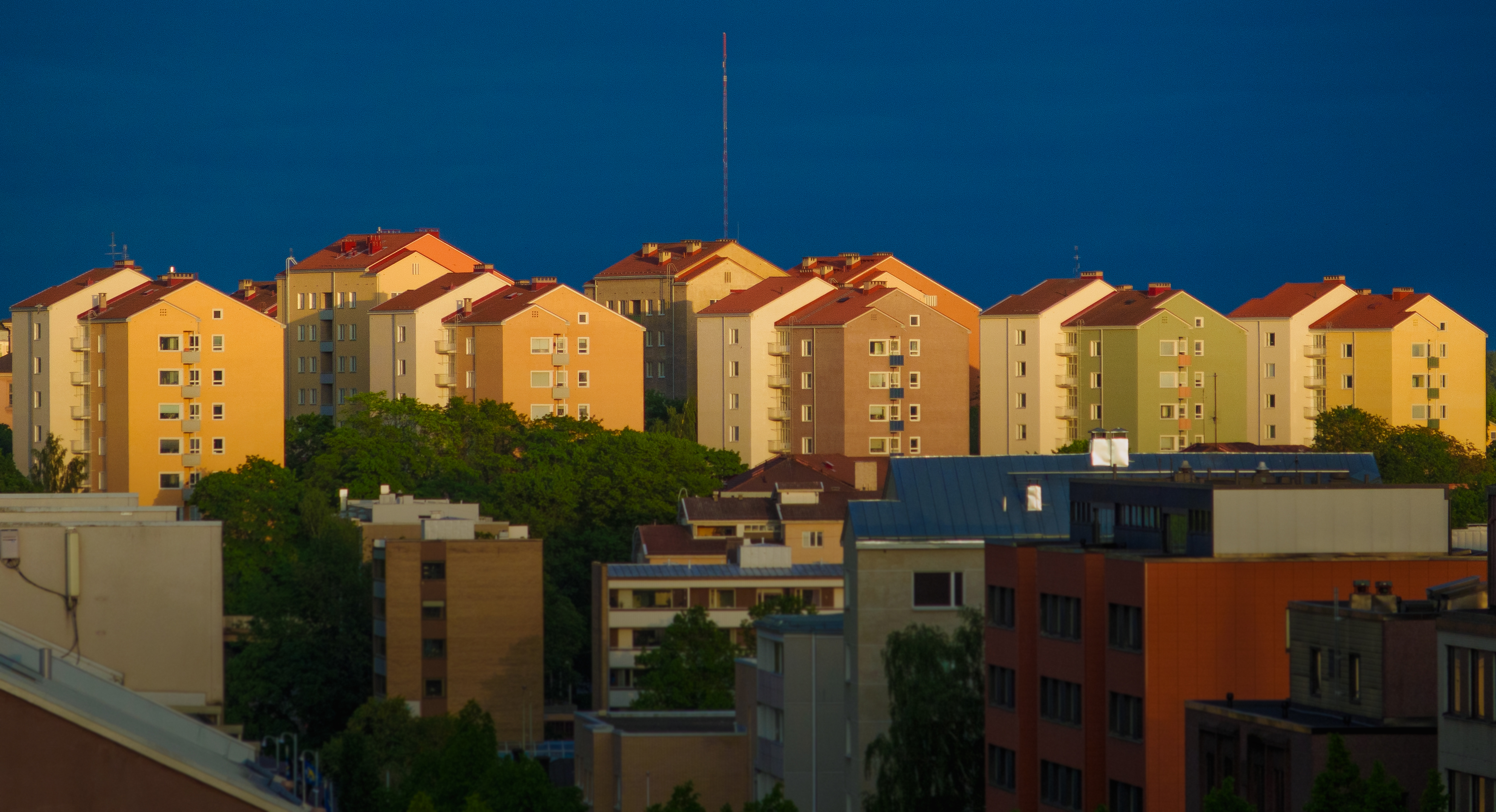 Apartment towers from early 1950s on the "Velkaistenmäki" hill beside Turku athletic stadium, seen from across the river (from northeast). June 2014. Architects Abel Sandelin, Viljo Laitsalmi, Pekka Sivula and Heikki Sarainmaa 1952–1954.